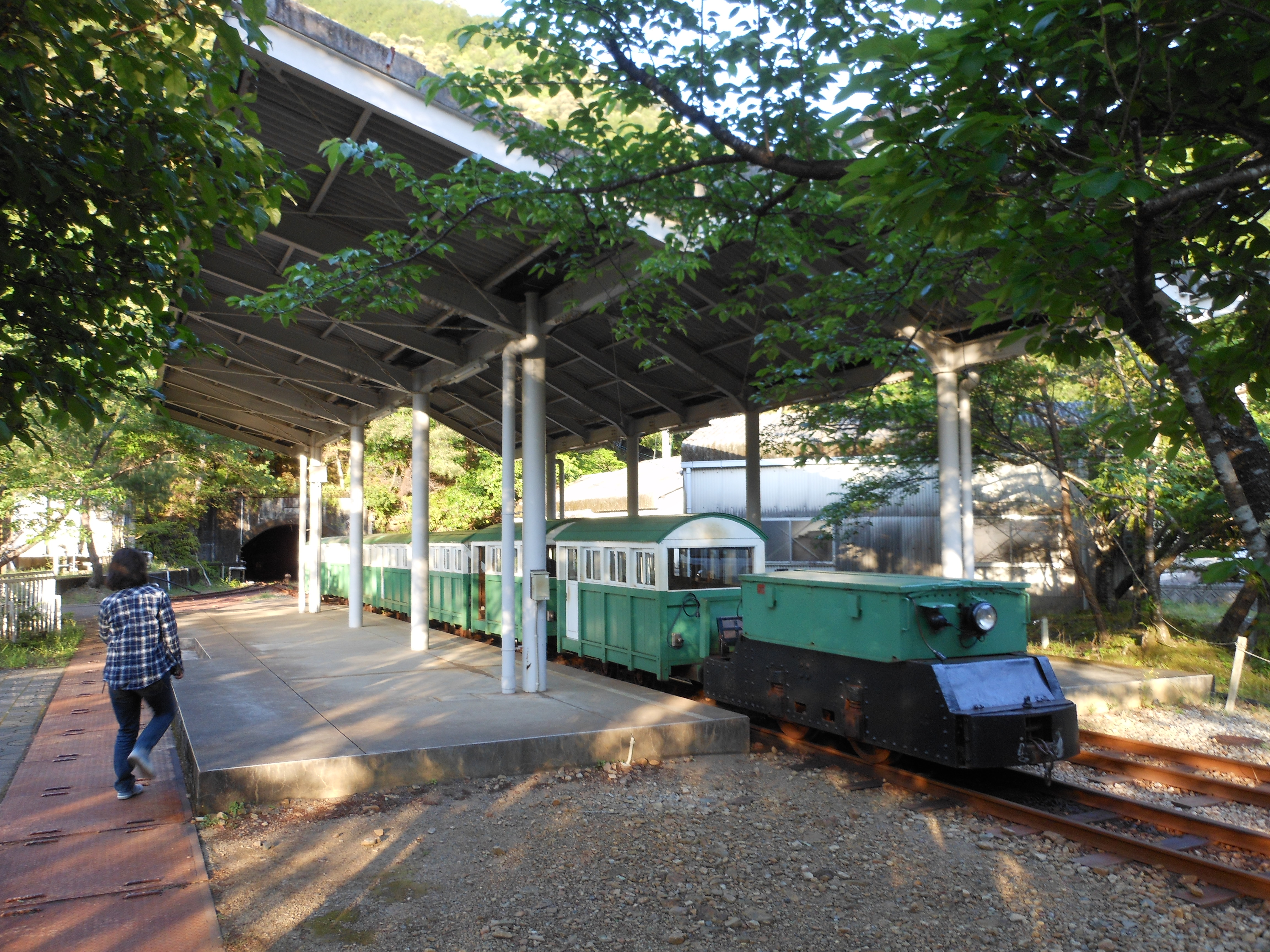 This is the trolley train in Kiwa, Kumano city, Mie prefecture, Japan. This train was used as a mining railway for Kishu Mine. Now, this train connects Seiryu-so and Yumoto Yunokuchi Spa.